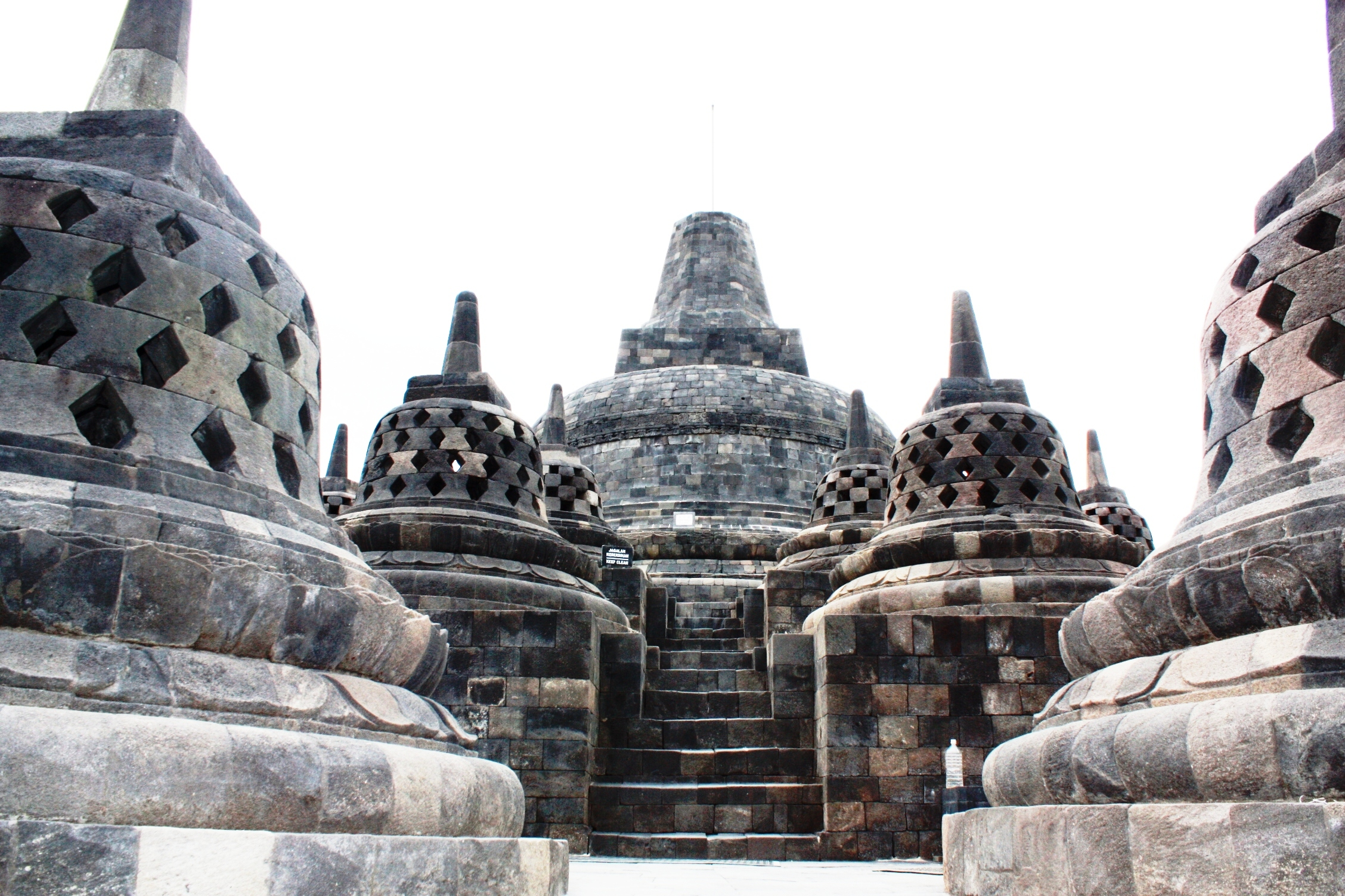 Those Pram in inverse bell form show the upper of cosmos according the Tantrique buddhism , the upper area is representative of the nirvana and the ground level is about of this world with all situation about the human life ! The upper terrace have got 72 stupas with 3 part respectively with 32 stupas for the lower, 24 stupas for the middle level and 16 around the upper level and the Great stupa, showed here. Each stupa include some buddha statue Bodhisattvas